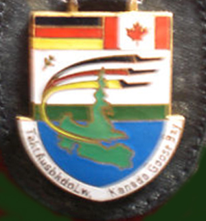 German Air Force Tactical Education Command at Goose Bay (Canada)